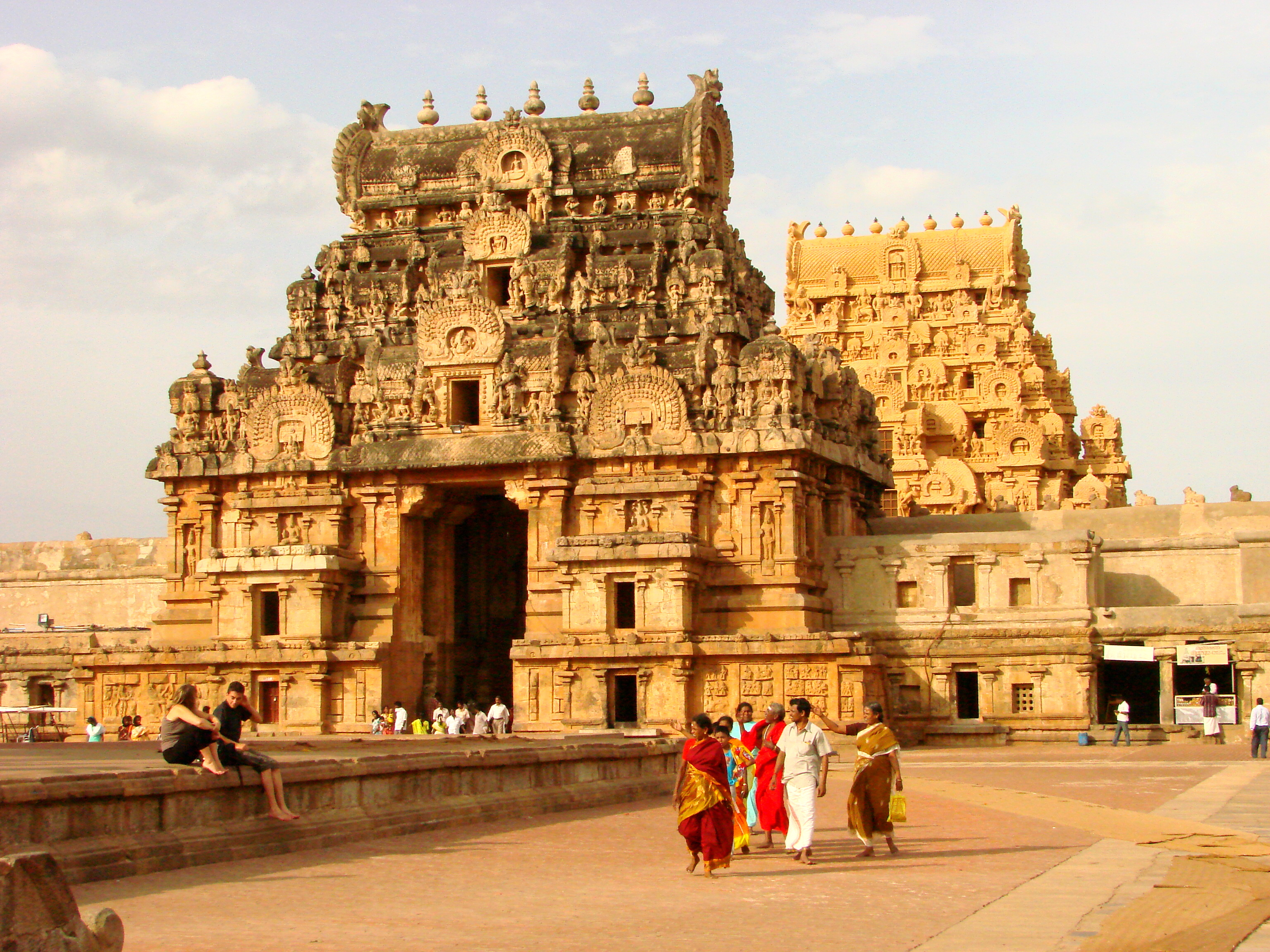 Brihadishwara Temple at sunset, Thanjavur, India. July 2008.